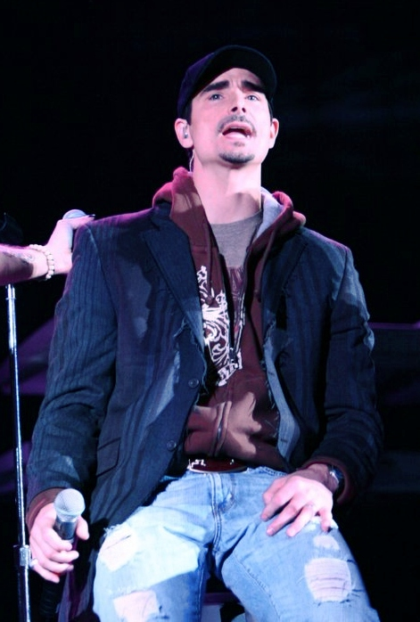 Kevin Richardson on tour